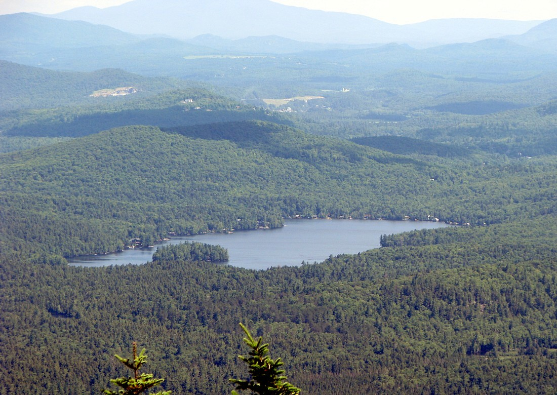 Kiwassa Lake, Franklin County, New York